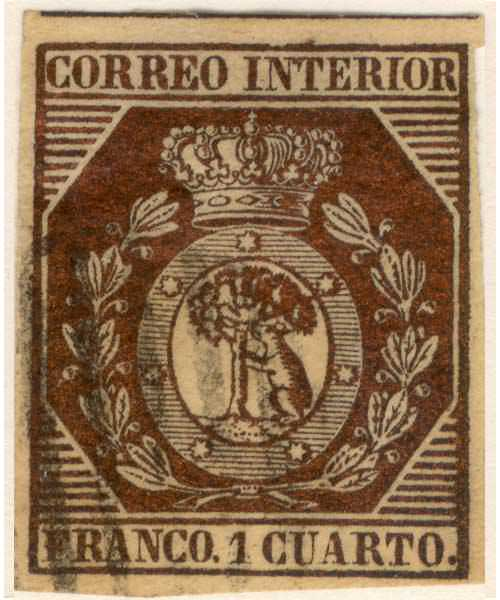 Madrid local postage stamp, Spain, 1853, 1 cuarto, bronze.